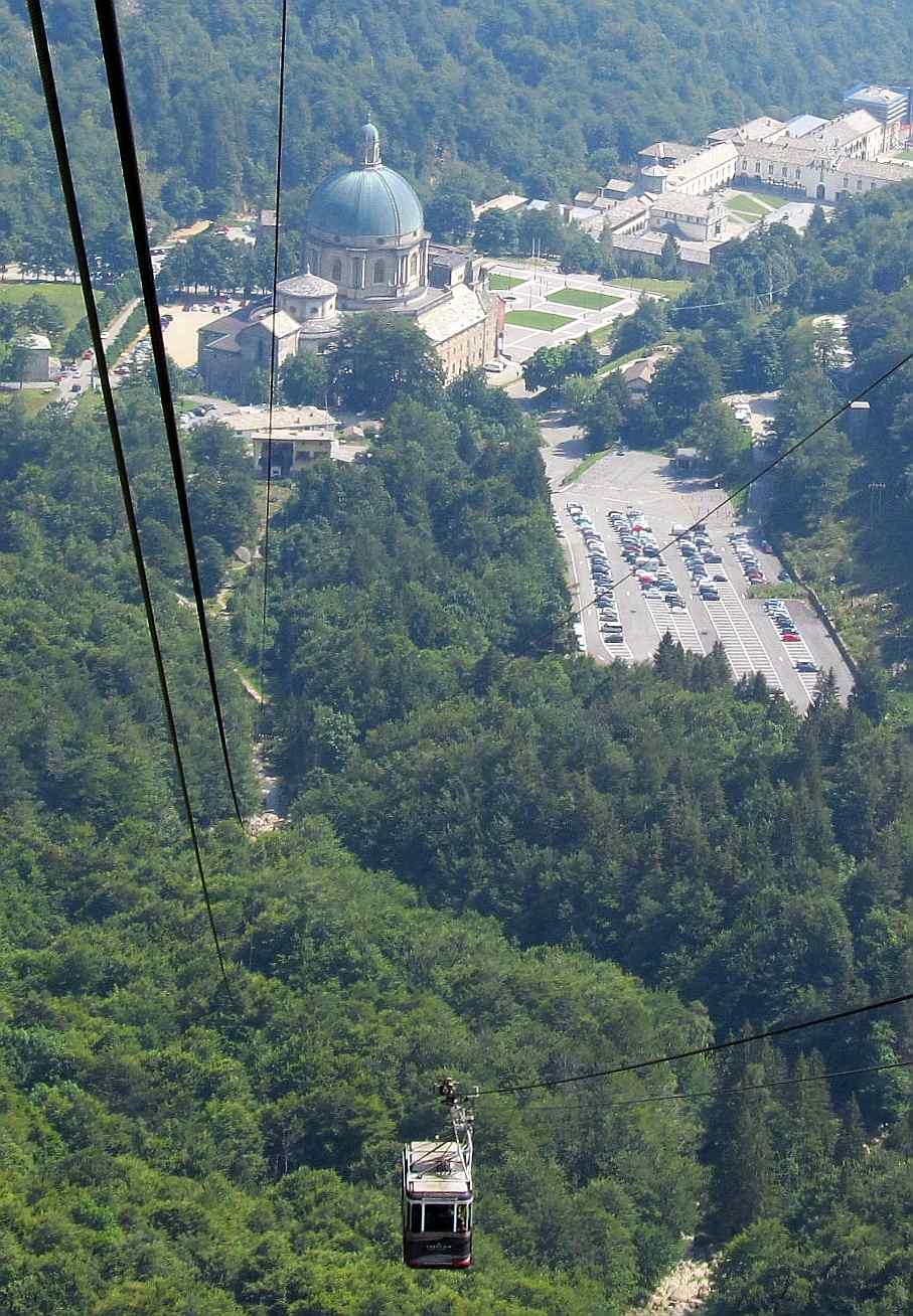 Oropa-lago del Mucrone cableway (BI, Italy)